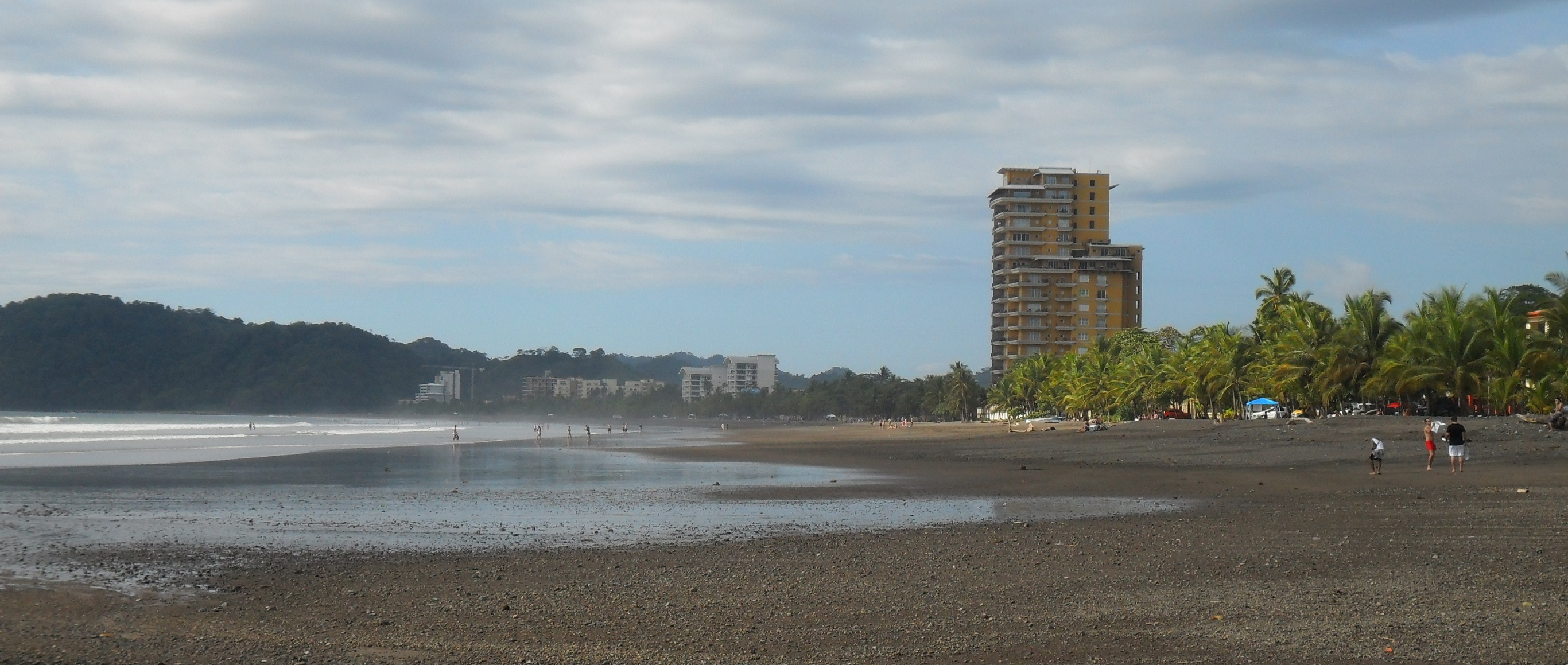 Beach at Jaco, Costa Rica